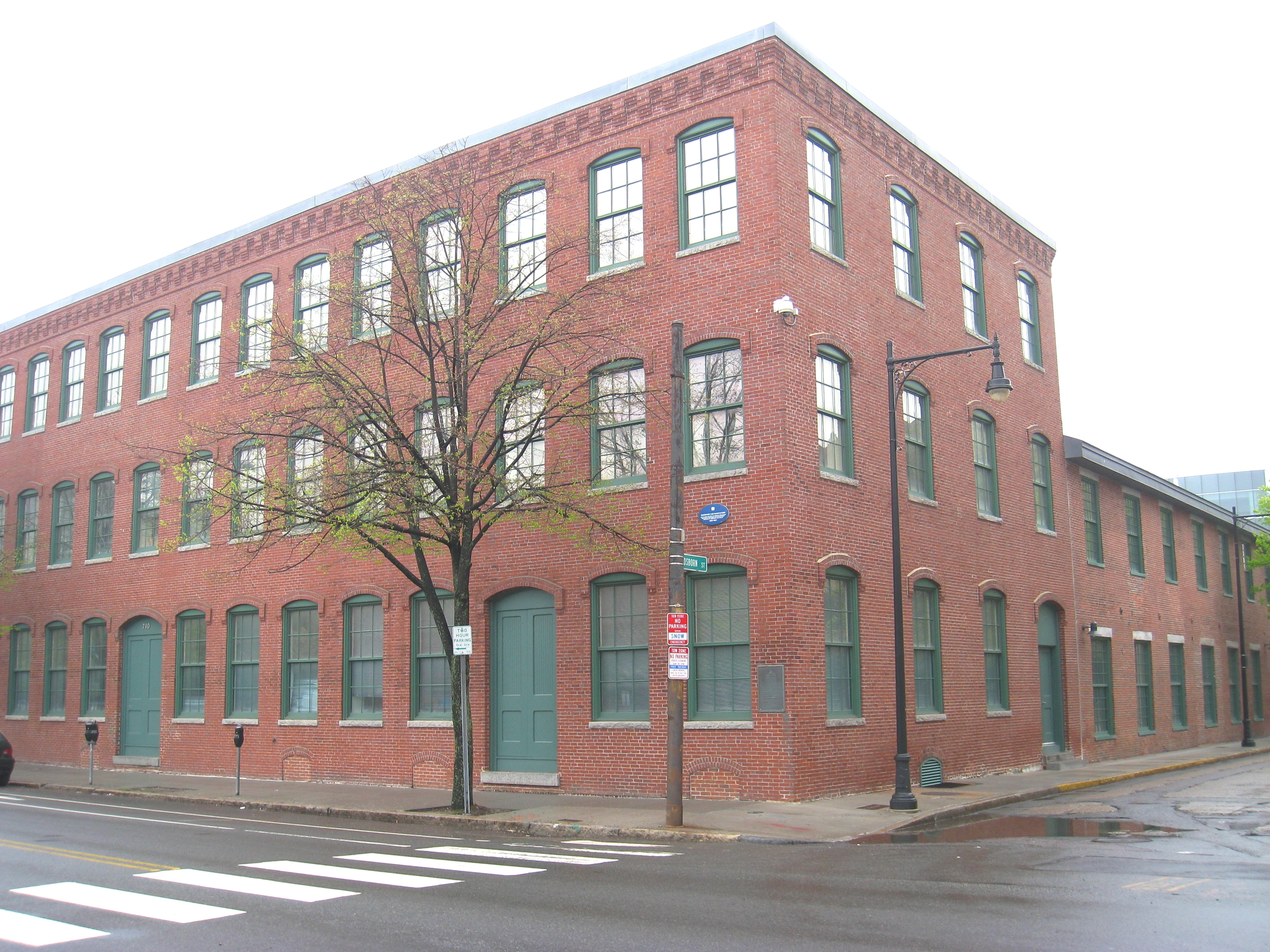 710 Main Street, Cambridge, Massachusetts, USA. This building was home to the Davenport Car Manufactory, pioneering manufacturer of railroad cars, as noted in a plaque on the facade. According to another plaque, it was subsequently one end of the first two-way long distance telephone conversation, which extended across three hours on October 9, 1876. Thomas G. Watson was at this location, and spoke to Alexander Graham Bell at 60 Kilby Street, Boston, Massachusetts.